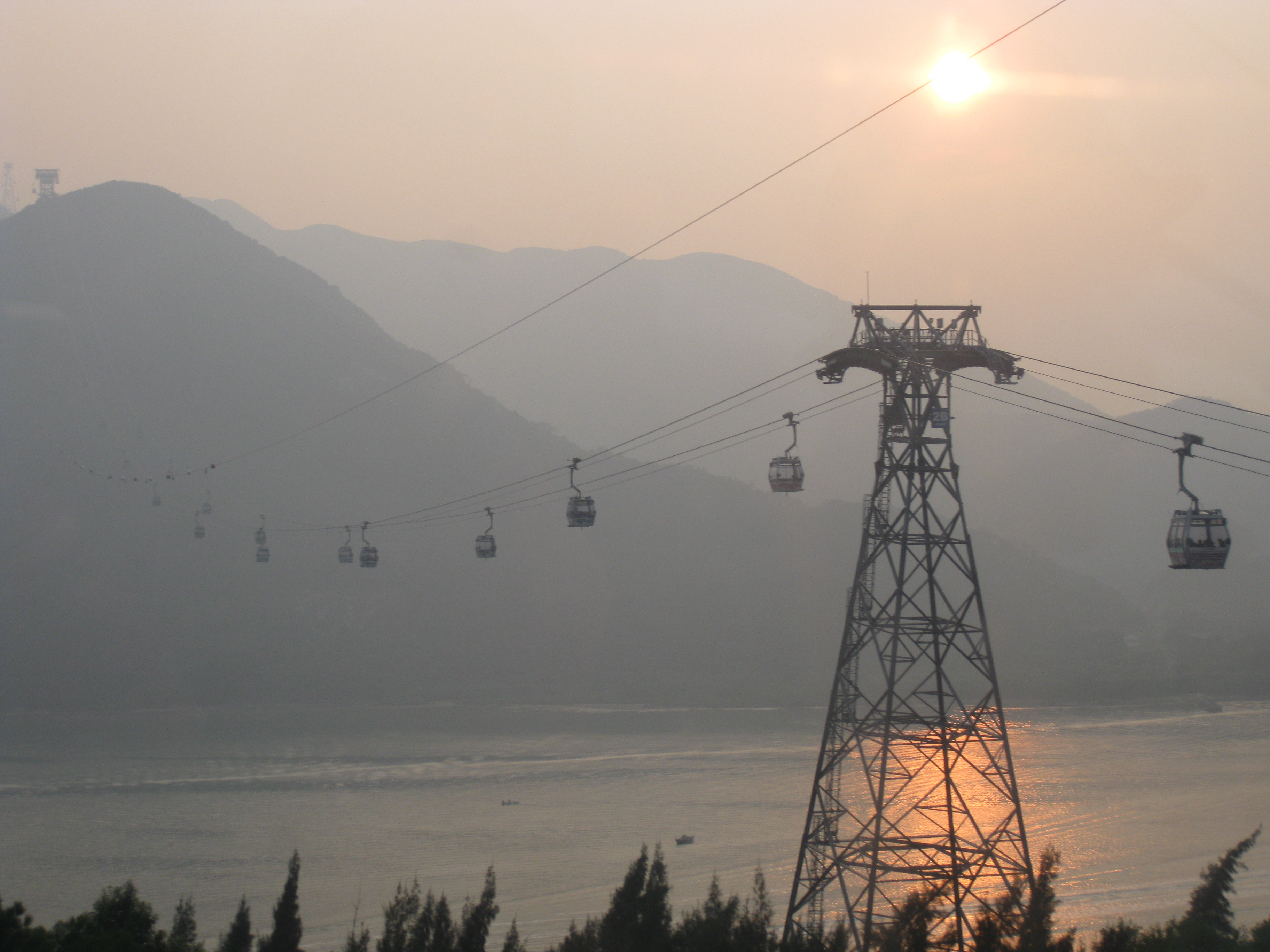 Hong Kong - Ngong Ping 360 Cable Car